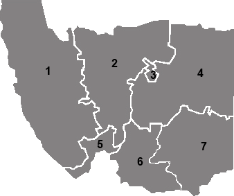 map of the constituencies in Karas region in Namibia